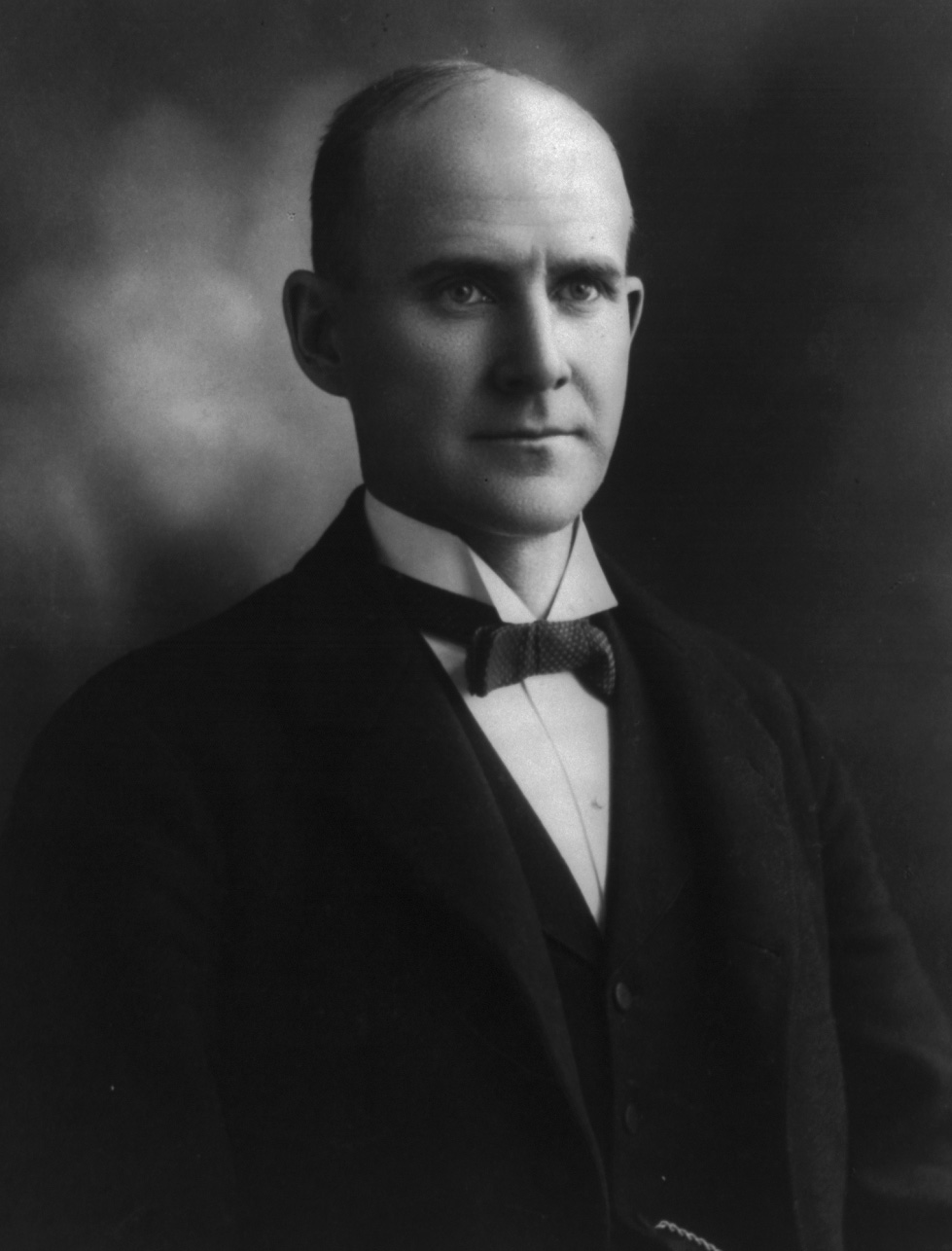 Eugene V. Debs photo portrait, half, facing right.